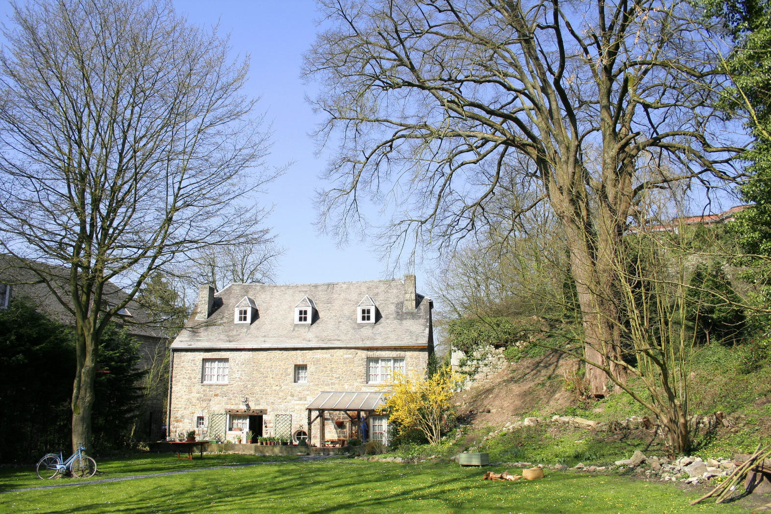 Barbençon (Belgium), the old watermill and its remarkable Small-leaved Linden.